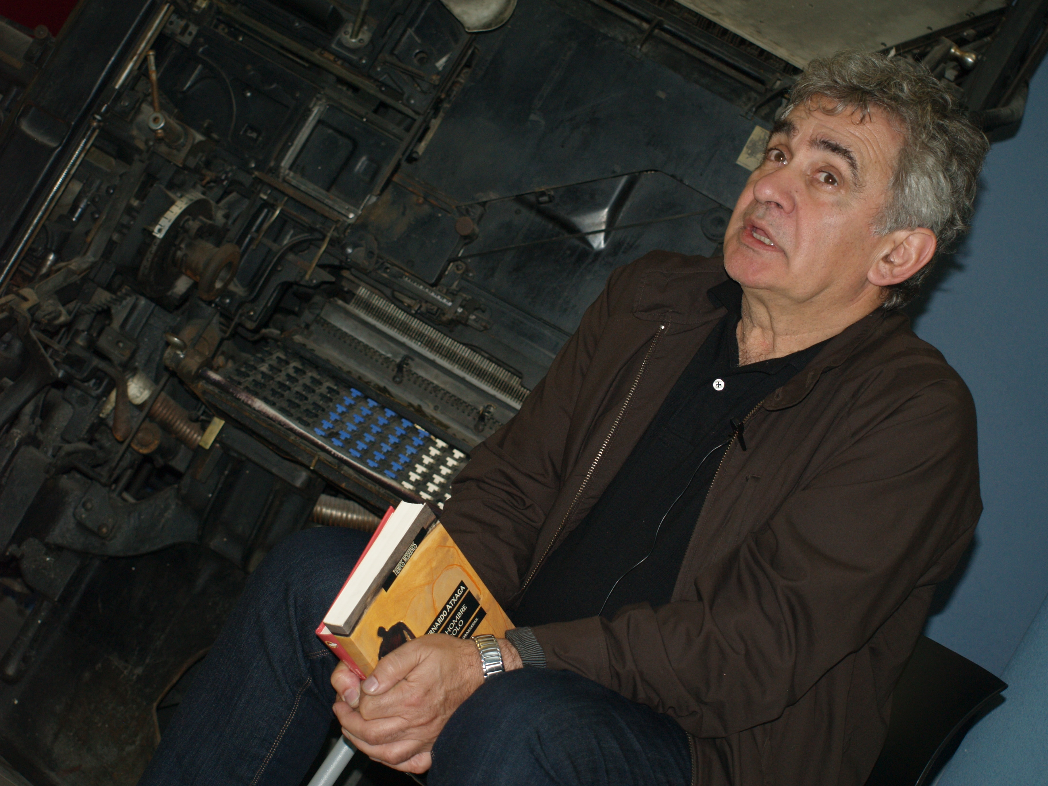 The vasque writer Bernardo Atxaga, in the University of La Rioja (Spain).